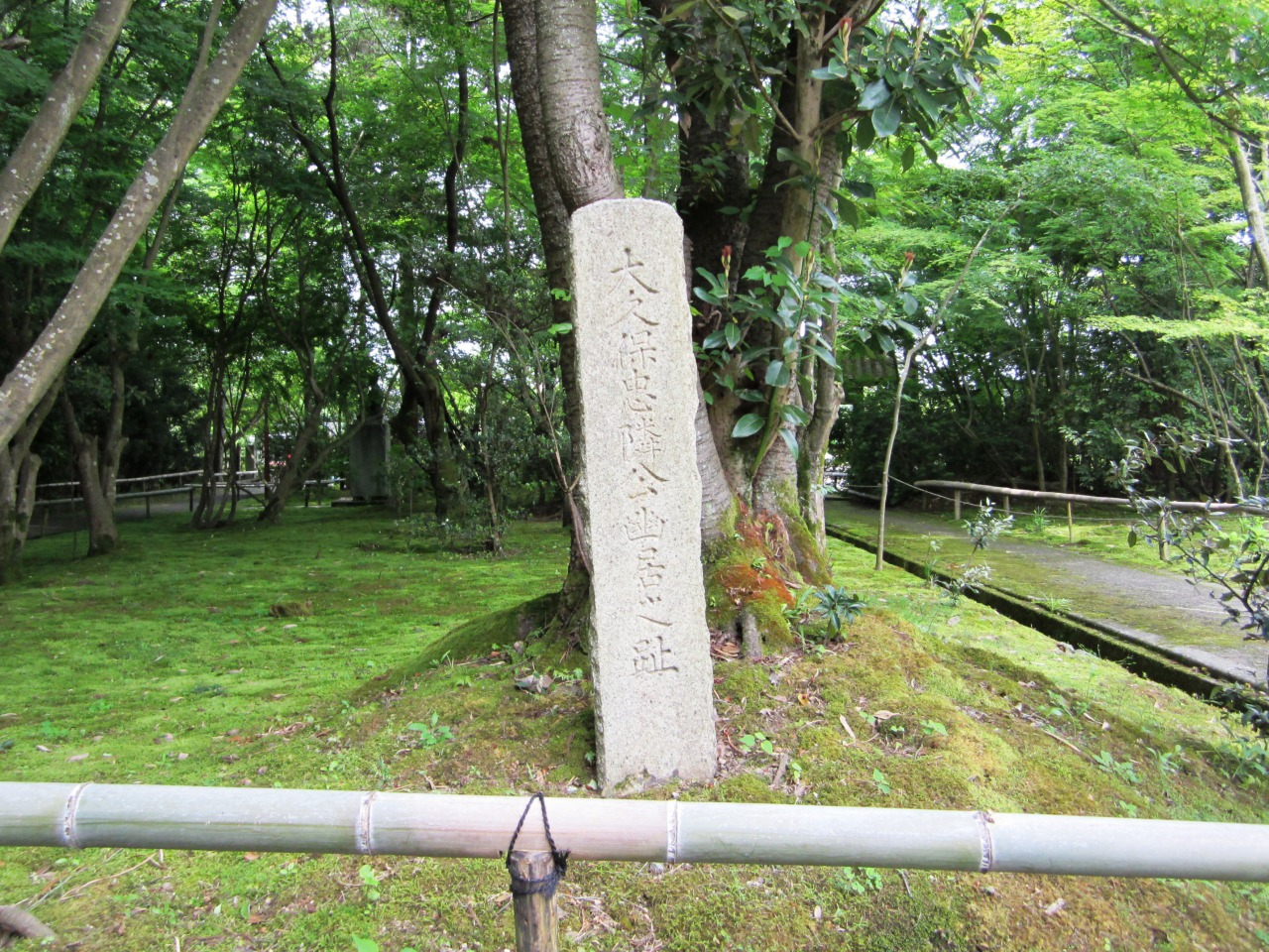 The site where Ōkubo Tadachika was confined in Hikone, Shiga.